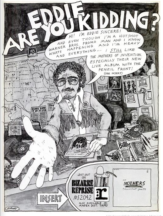 Eddie Sincere of Warner Bros. still likes The Mothers of Invention, 1971